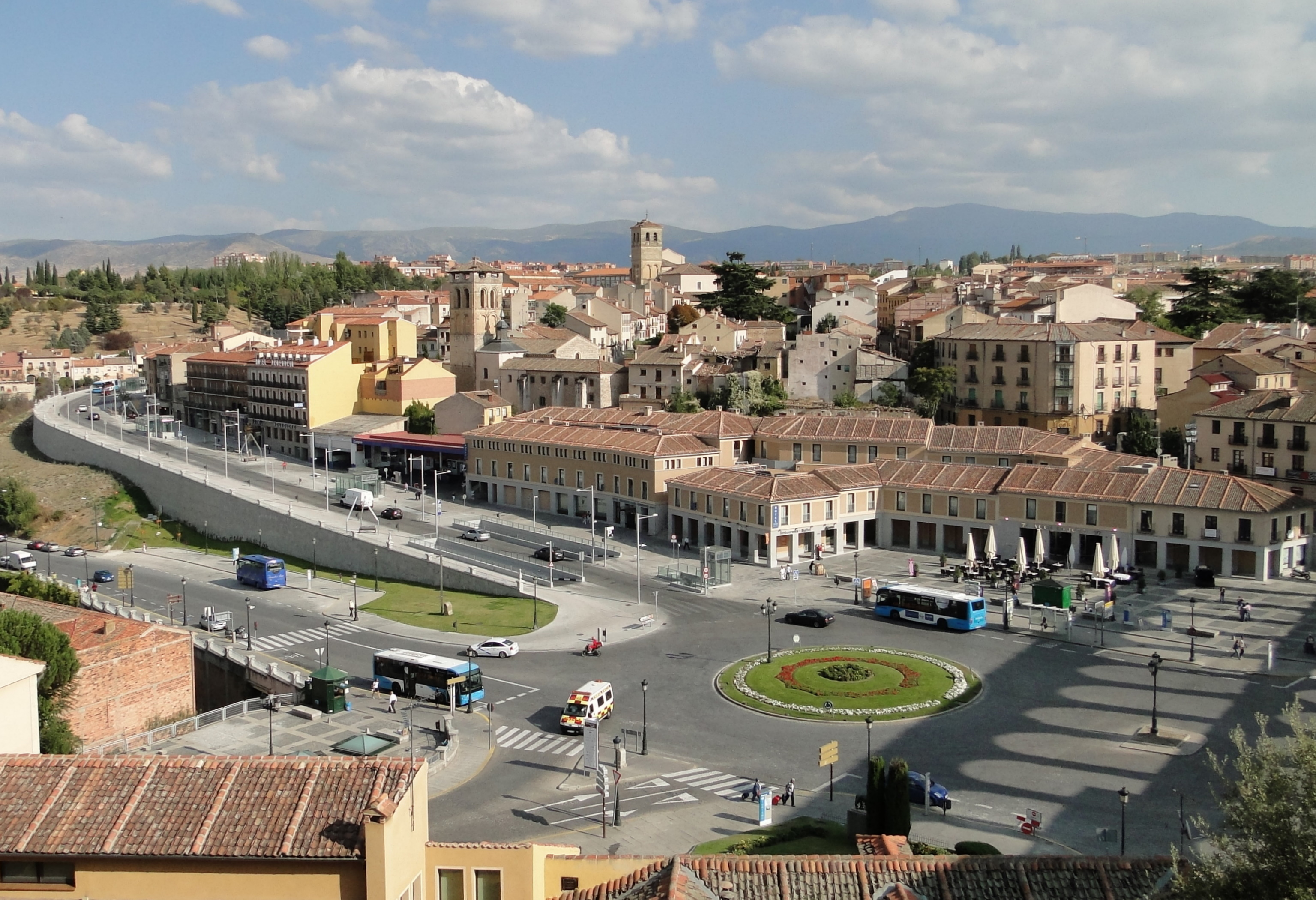 Plaza de la Artillería, Segovia, Spain